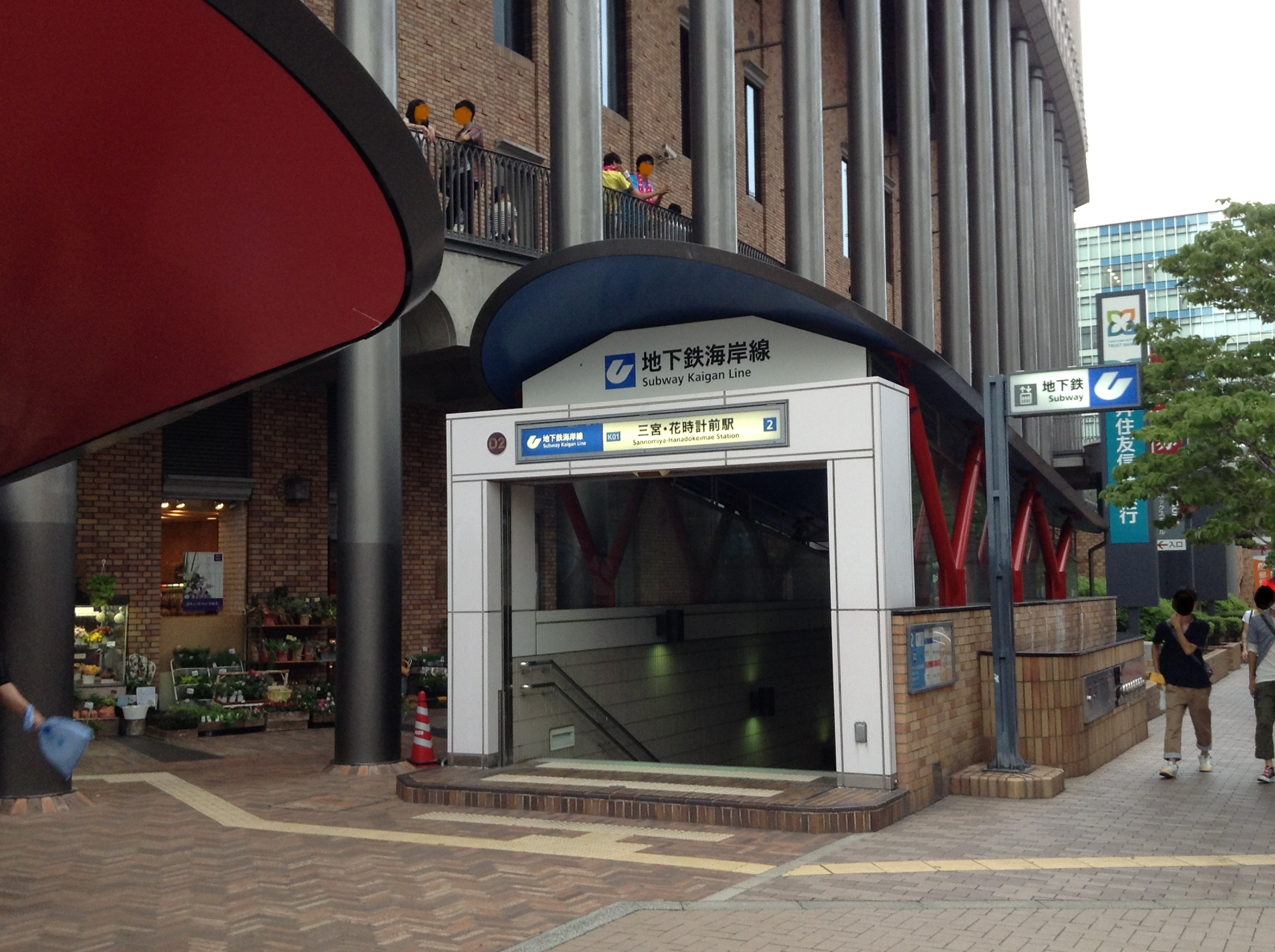 Kobe Métro , The entrance of Sannomiya-Hanadokeimae Station.